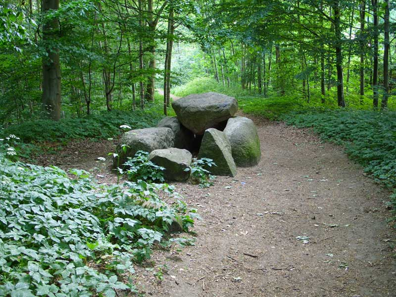 The Urdolmen of Büdelsdorf